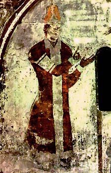 The donor fresco of Rati Surameli from the Vardzia monastery, Georgia